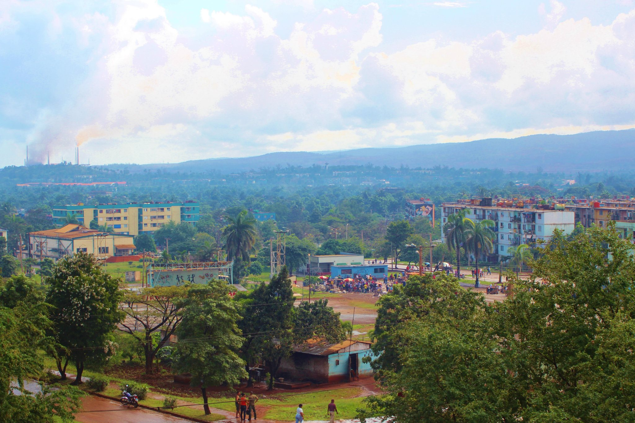 Moa Holguin